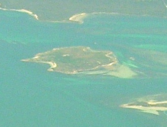 Little Dog Island Tasmania view from east